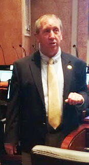 Kentucky State Representative Myron Dossett